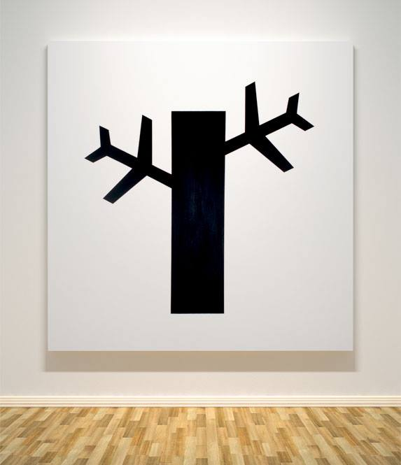 Acrylic on canvas